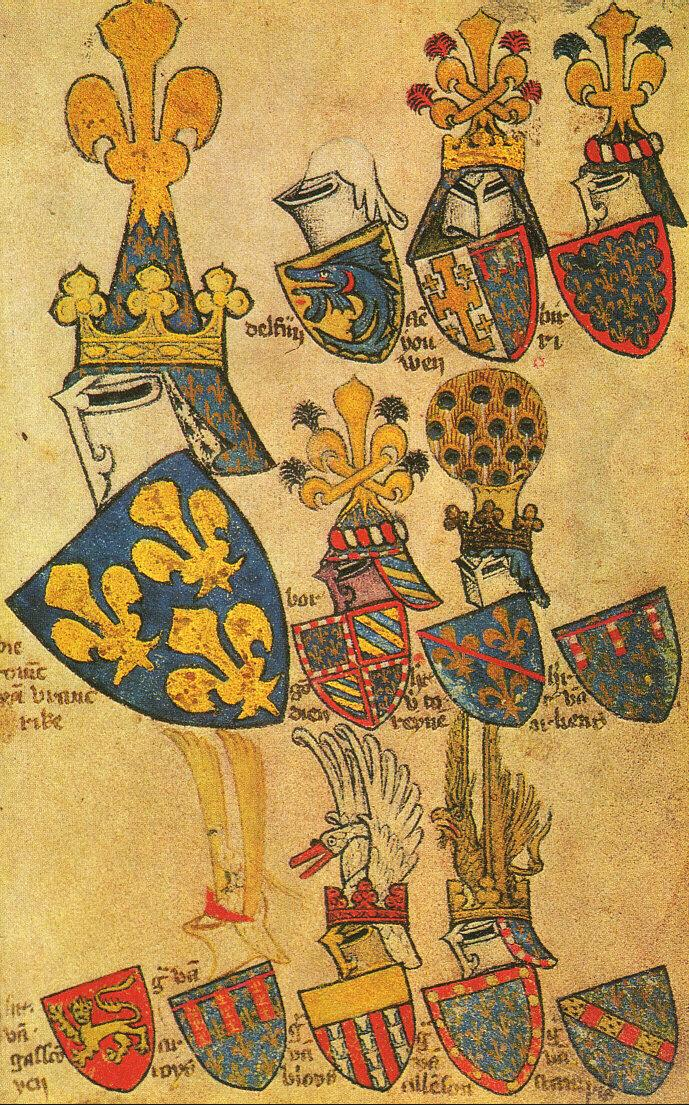 Page out of the Armorial Gelre. Folio 46r de l'Armorial de Gelre.